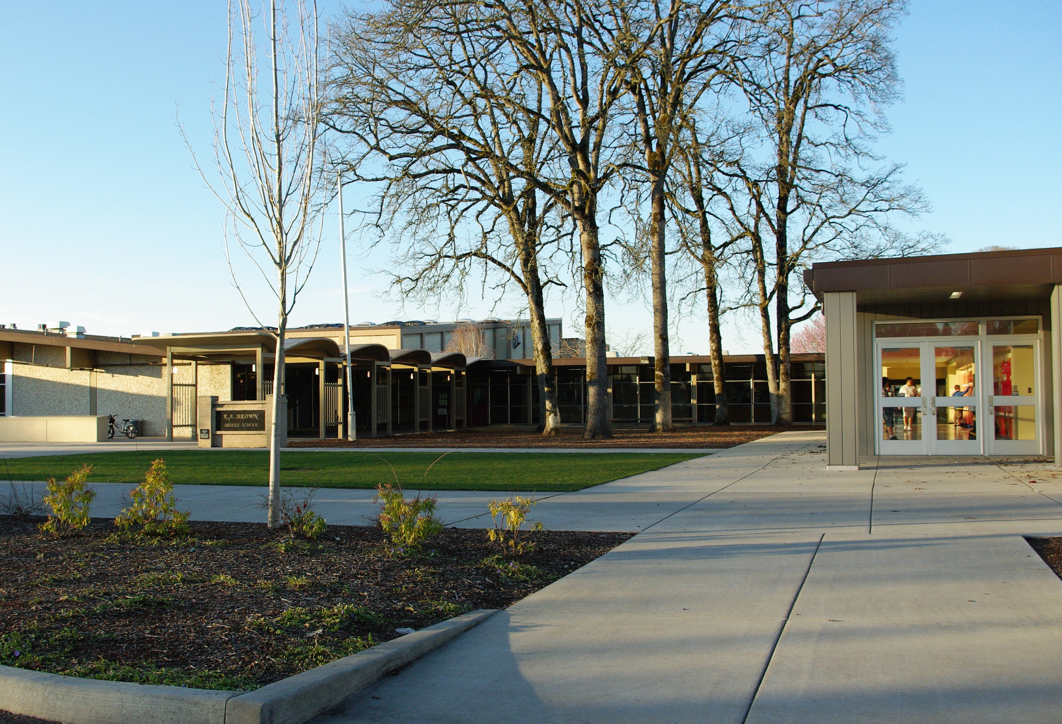 R.A. Brown Middle School in Hillsboro, Oregon.